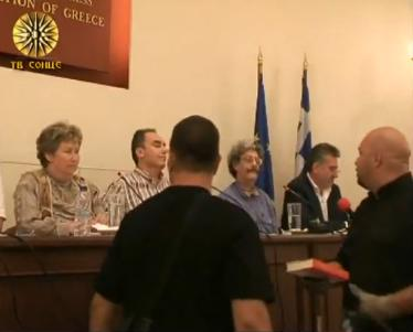 Members of the Χρυσής Αυγής (Golden Dawn) interrupted the promotion of a Greek-Macedonian dictionary. According to them, the Macedonian language has not existed.[1]